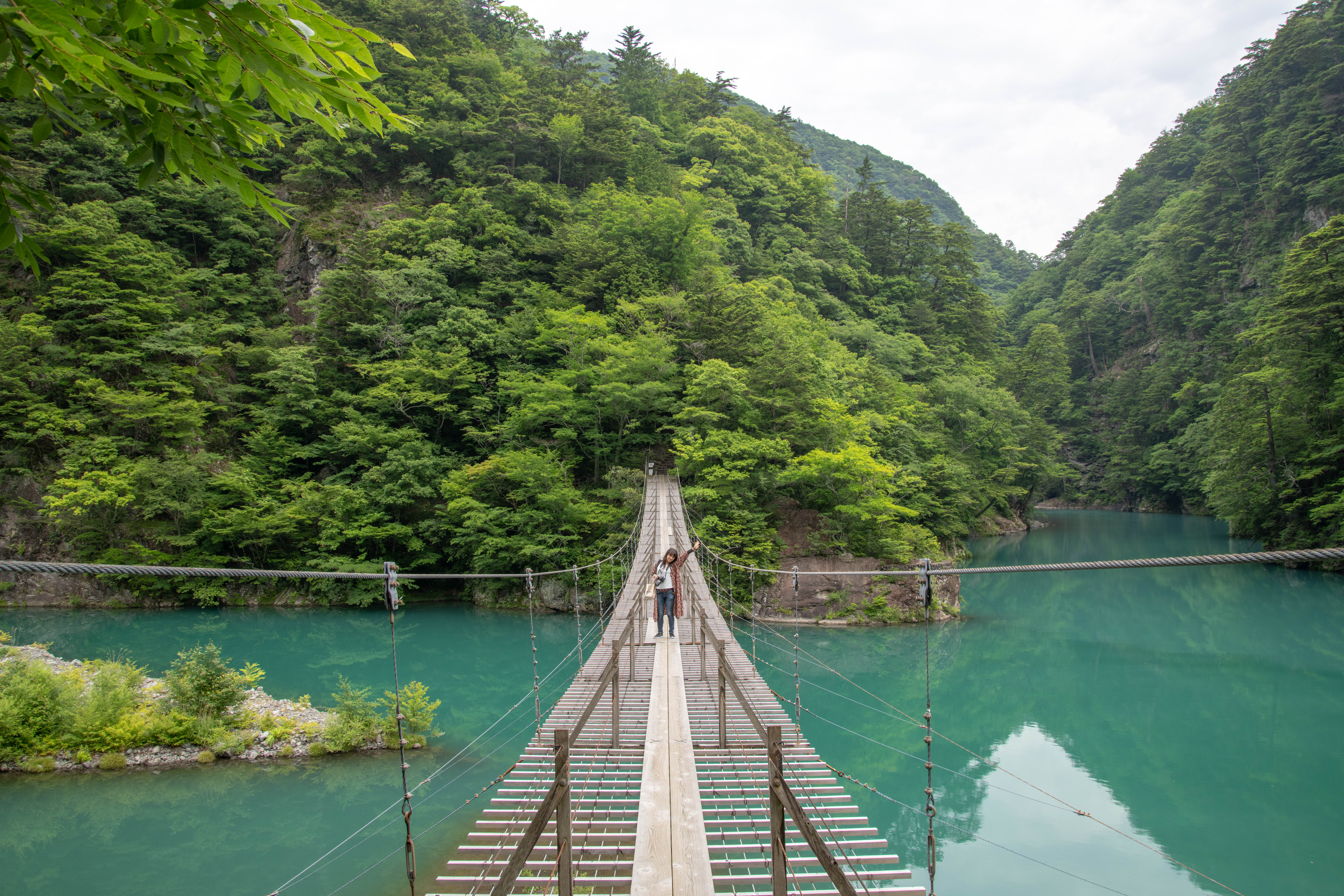 Yume-no-Tsuribashi in Kawanehon, Shizuoka Prefecture, Japan.